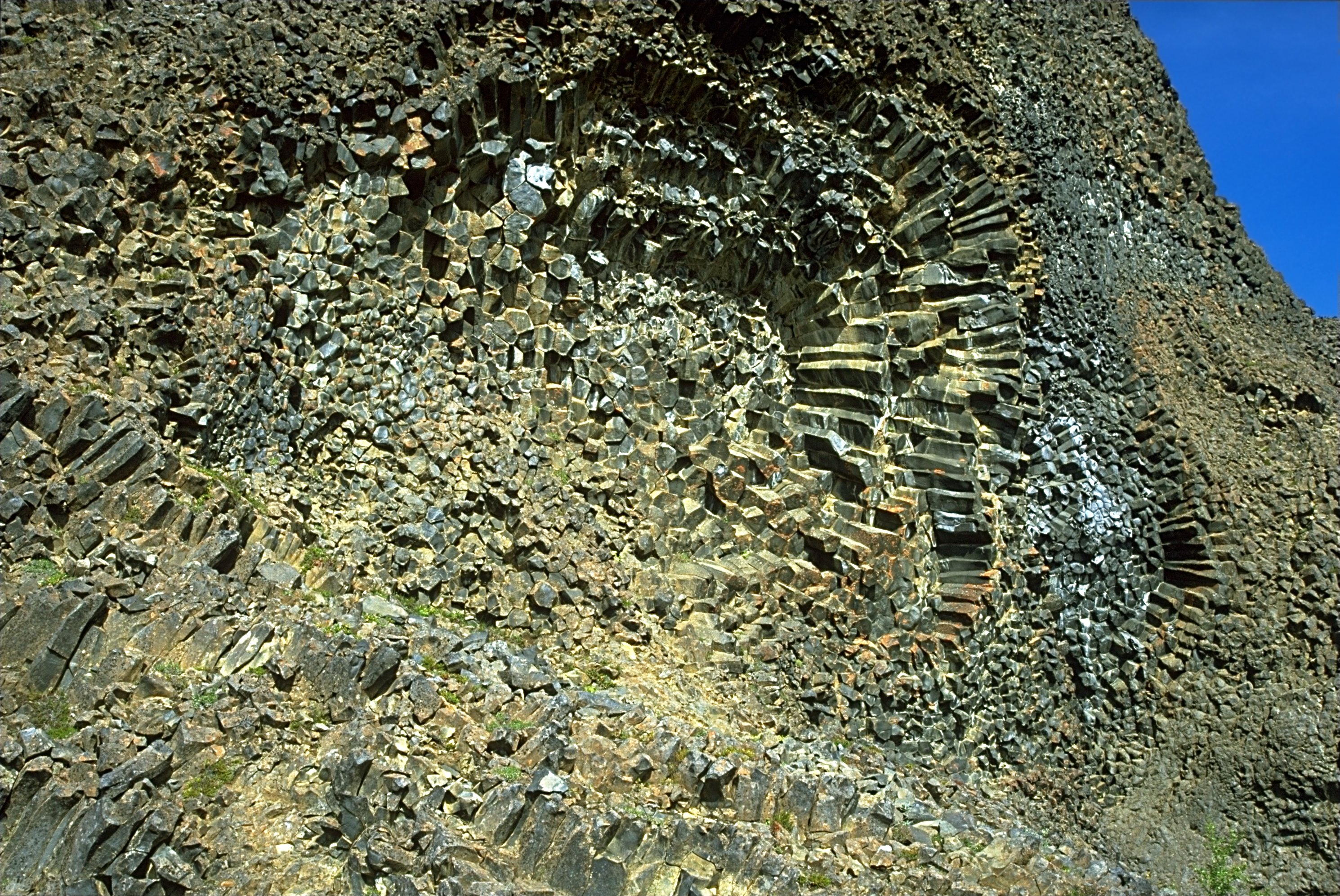 Basalt Rosette in Vesturdalur, Iceland Photo was taken using the following technique: Film: Fuji Velvia Lens: 2.8/100 Macro Filter: Body: Minolta Dynax 7 Support: Manfrotto 190B Image with Information in English Bild mit Informationen auf Deutsch